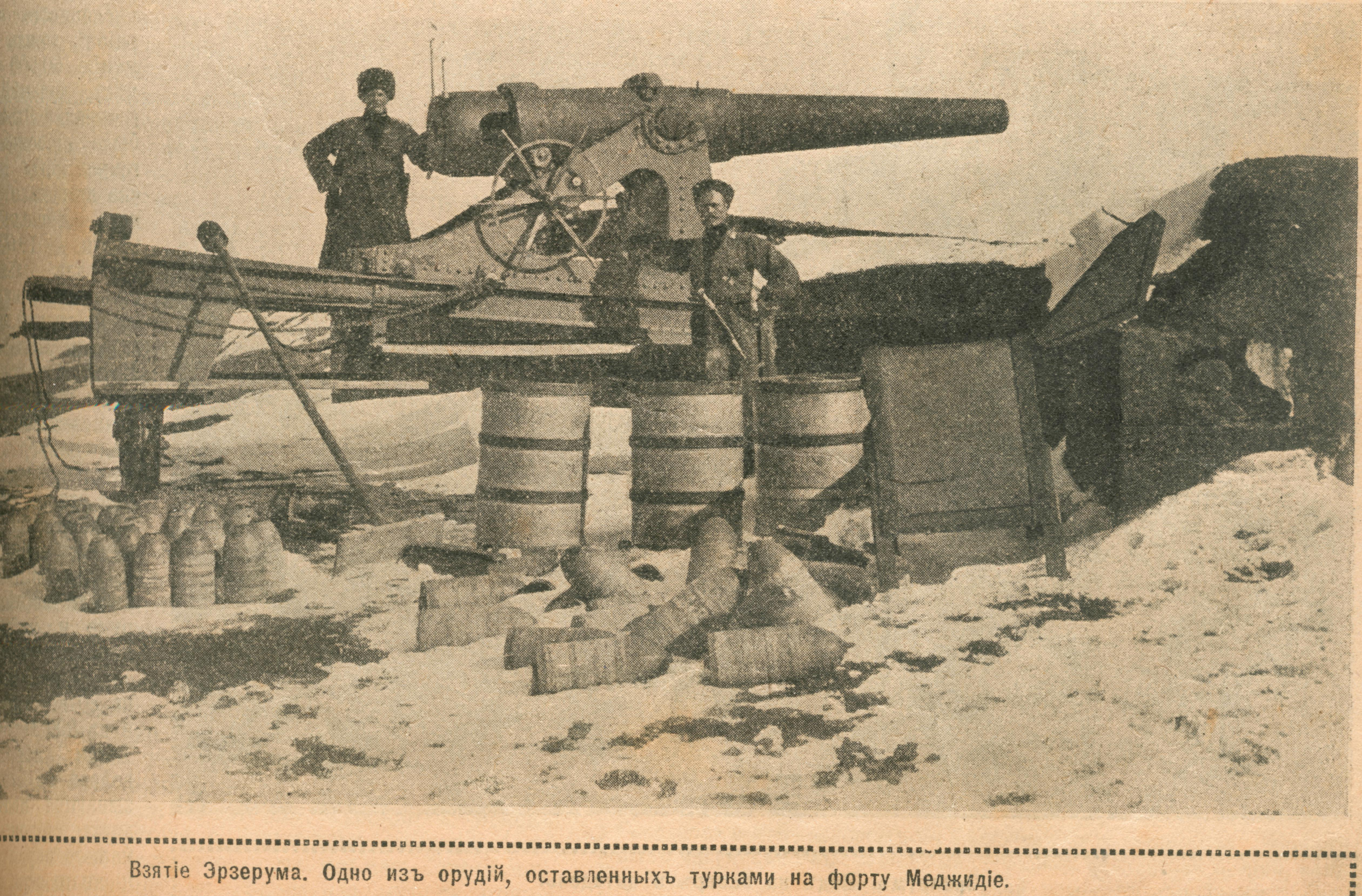 Turkish gun (15 cm Ringkanone L/26 Krupp) captured by the Russian Army, Erzurum, 1916